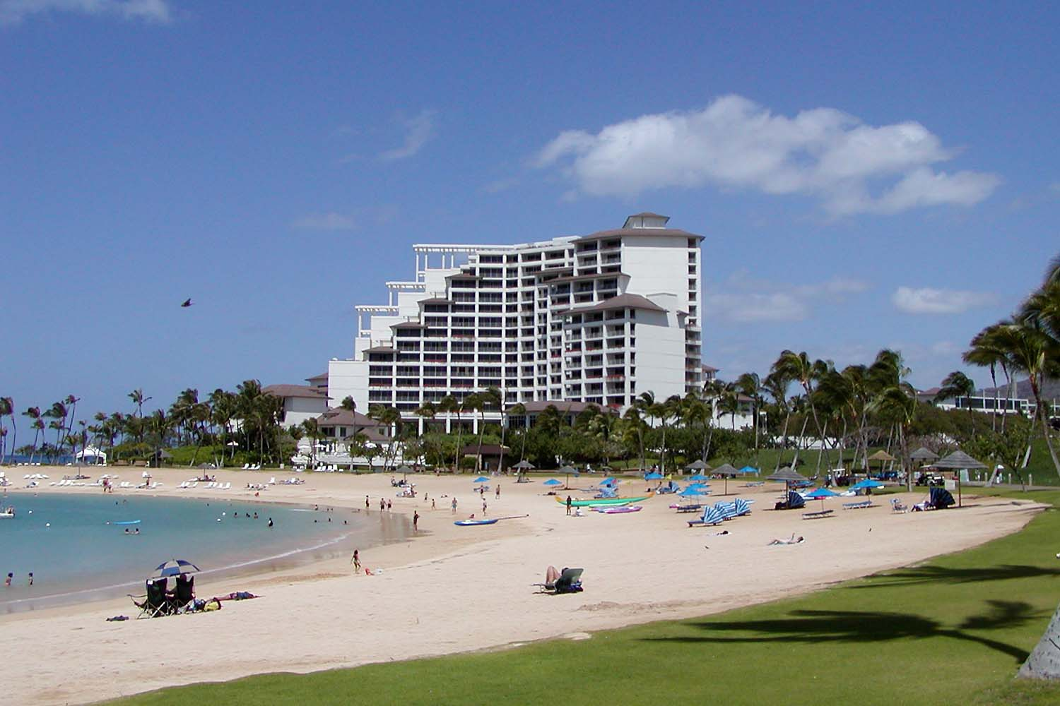 Ihilani resort on Oahu, Hawaii